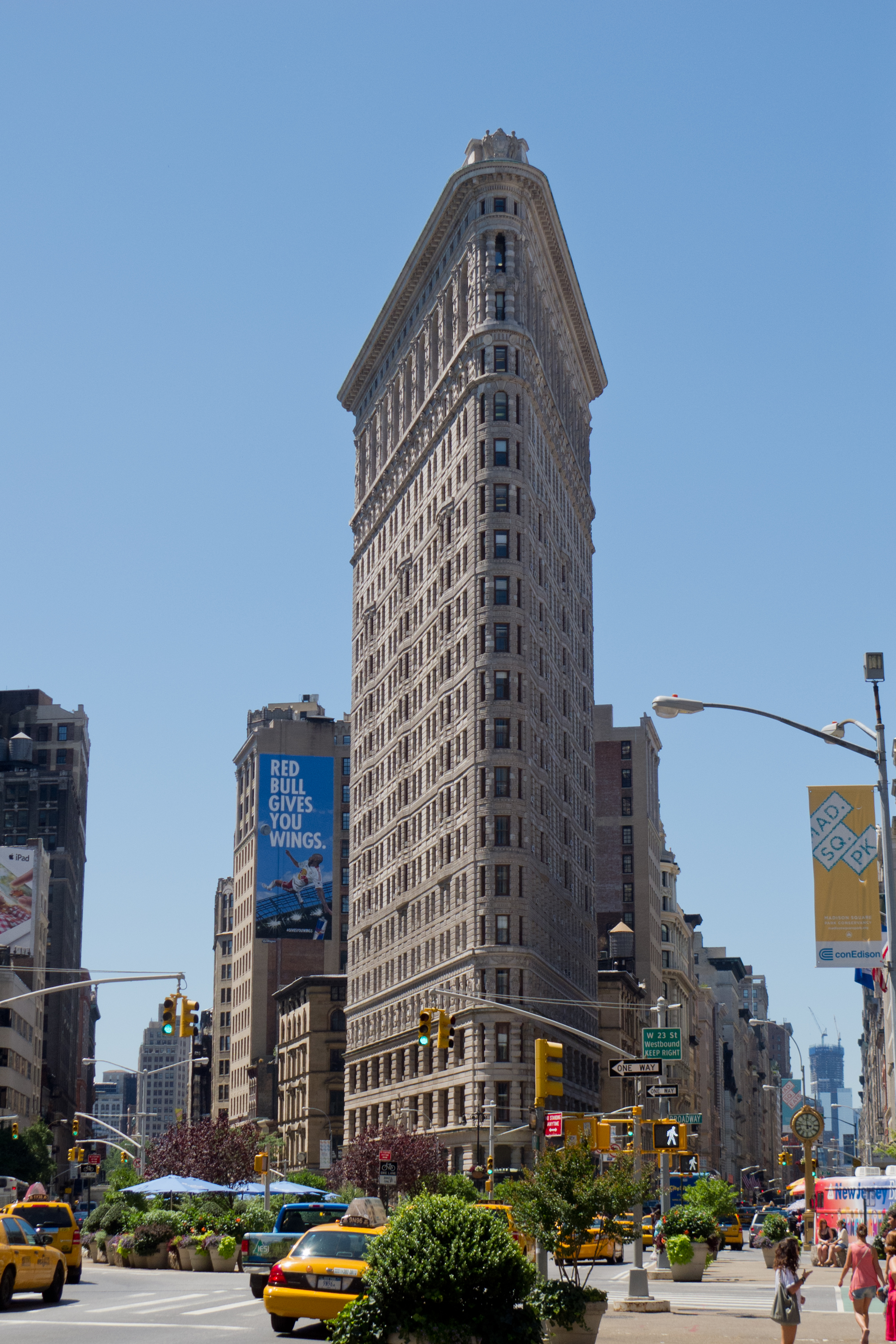 Flatiron Building, New York, United States.